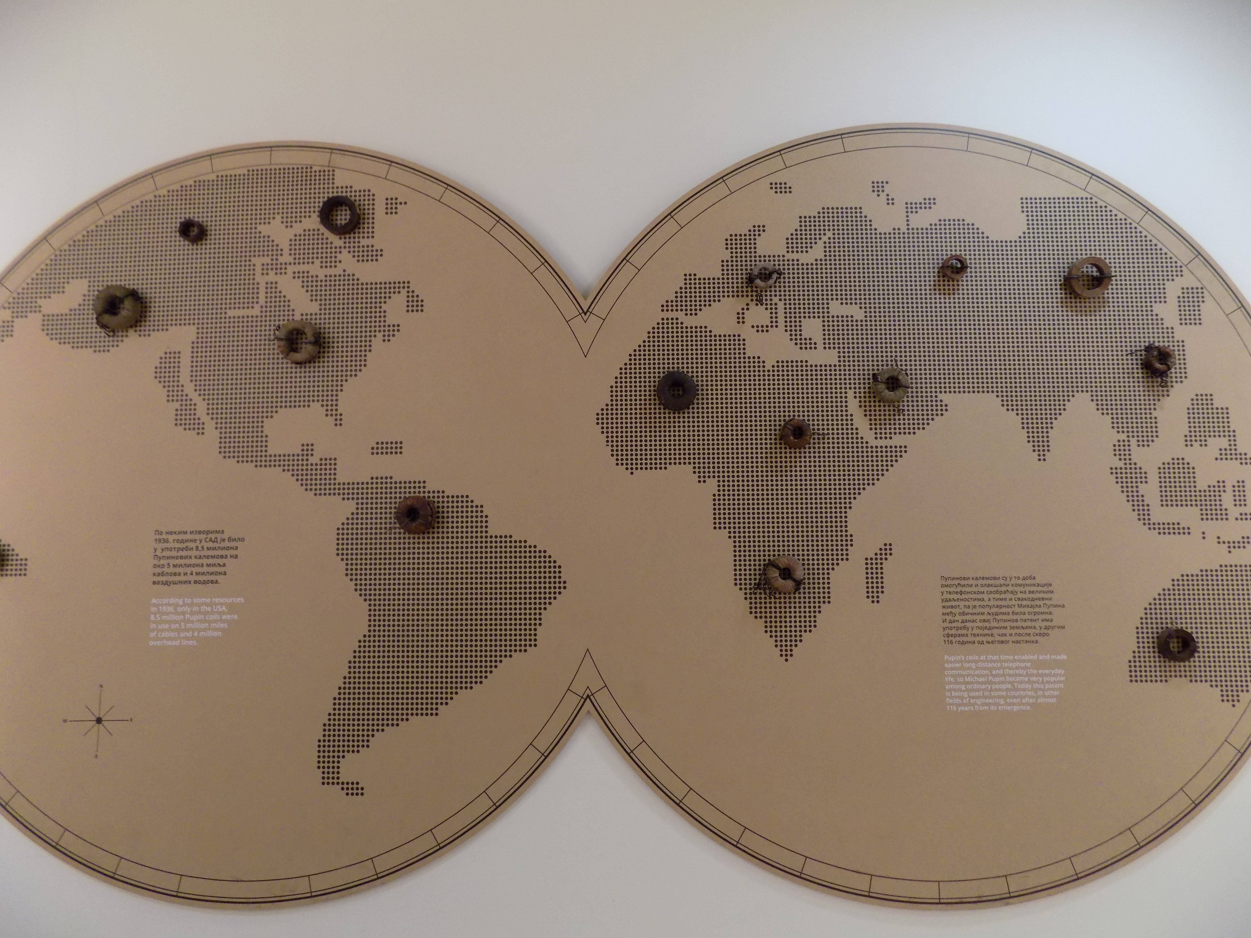 Pupin coils in PTT Museum in Belgrade